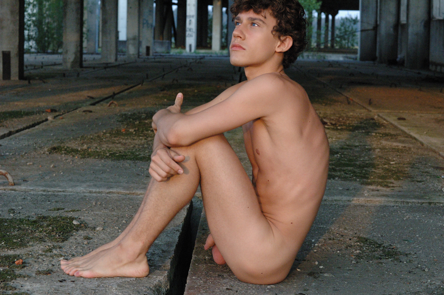 Photography by Sasha Kargaltsev.